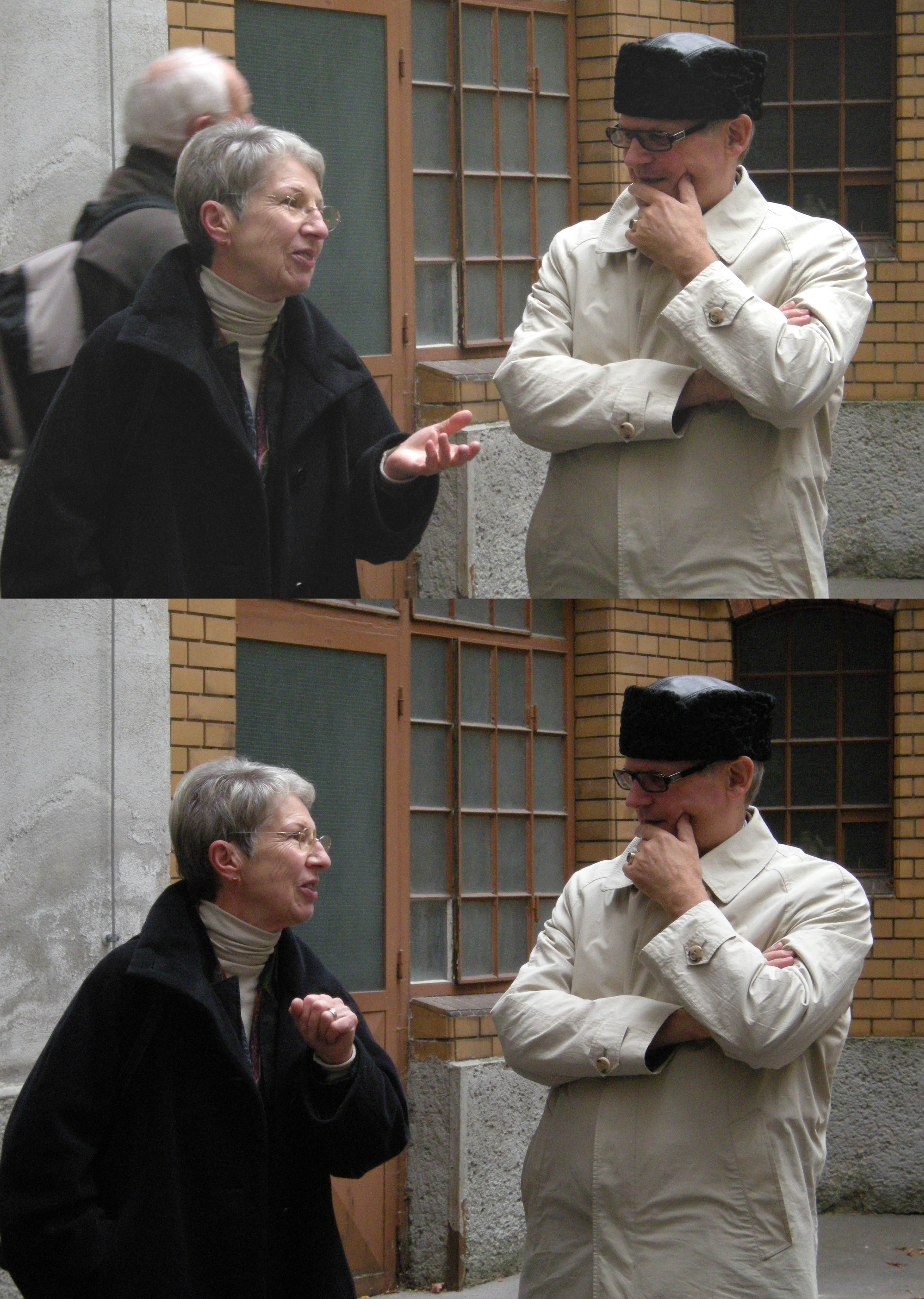 Barbara Frischmuth in talk with Paul Michael Lützeler, on occasion of a "tracing Hermann Broch" walk through a Vienna's part of town where mainly upperclass-jews resided until 1938; the picture was taken in the court of Sigmund Freud's former home, and nowadays Freud museum. Please note that camera's time stamp is set to UT, which is local CET -1h.